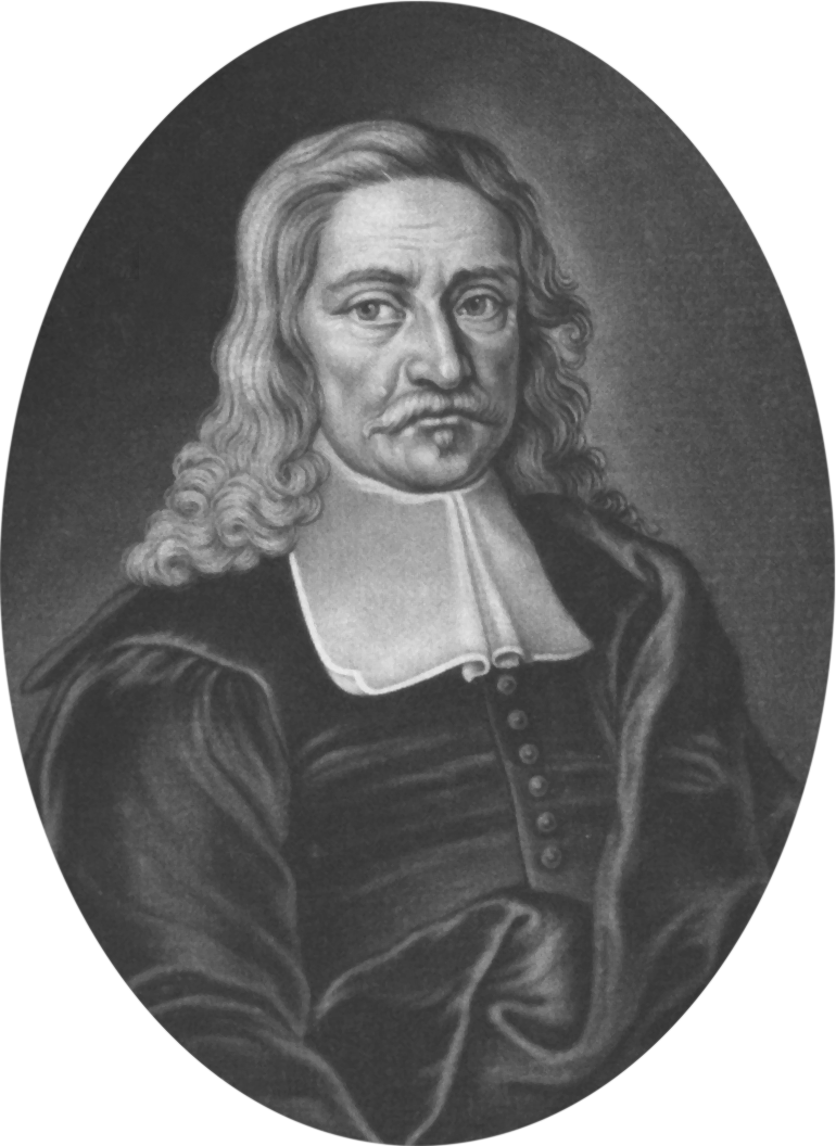 Jakob Thomasius (1622–1684)